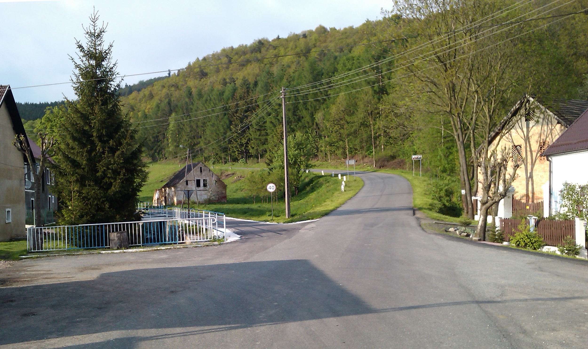 Wilcza village